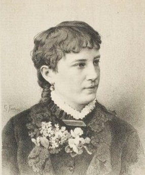 Lithograph portrait of the Italian opera singer Teresina Brambilla Ponchielli (1845-1921), wife of the composer Amilcare Ponchielli. Published in Teatro Illustrato, April 1884. See Italian Art Songs of the Romantic Era: Medium High Voice, p. 11. ISBN 0739002465